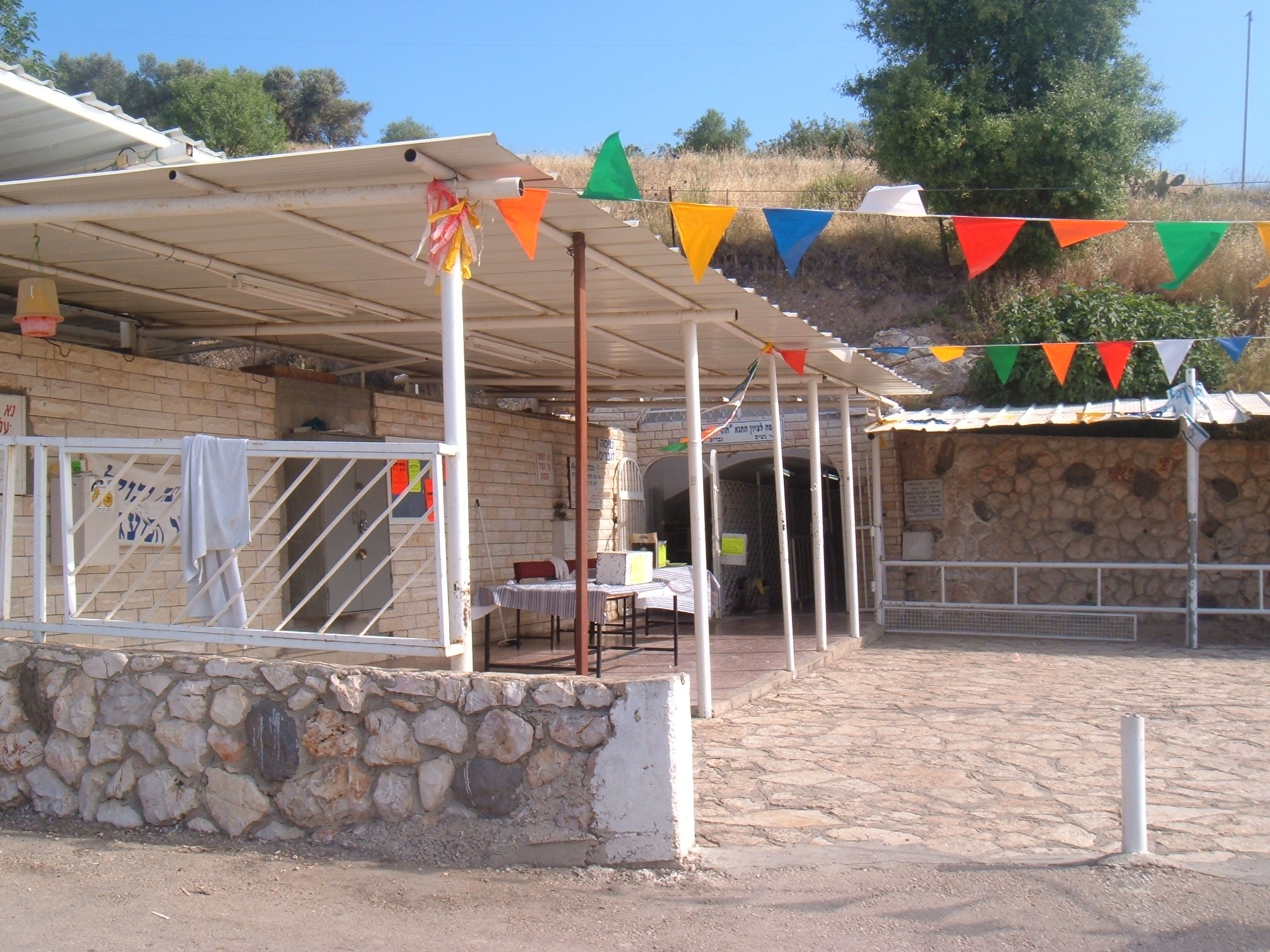 The entrance to Honi Hameagel's tomb near Hatzor Hagelilit. הכניסה למערת הקבר של חוני המעגל, סמוך לחצור הגלילית.